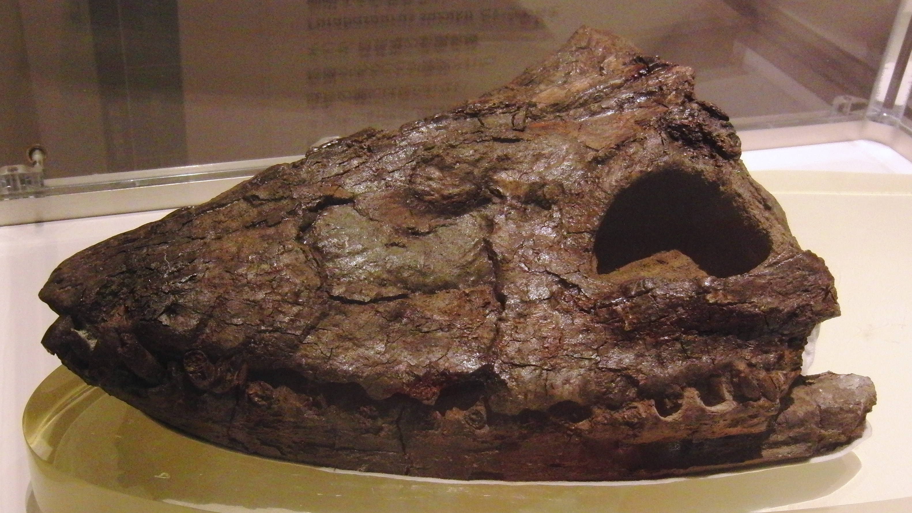 Fossil of skull and mandible of Futabasaurus suzukii. Exhibit in the National Museum of Nature and Science, Tokyo, Japan.